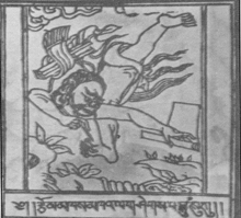 Photoshot of a terracota sketch of poet and Monk Kanhapad who lived around 10th century AD. The only sketch of Kanhapad available. Not replaceable. Available in many books and websites.